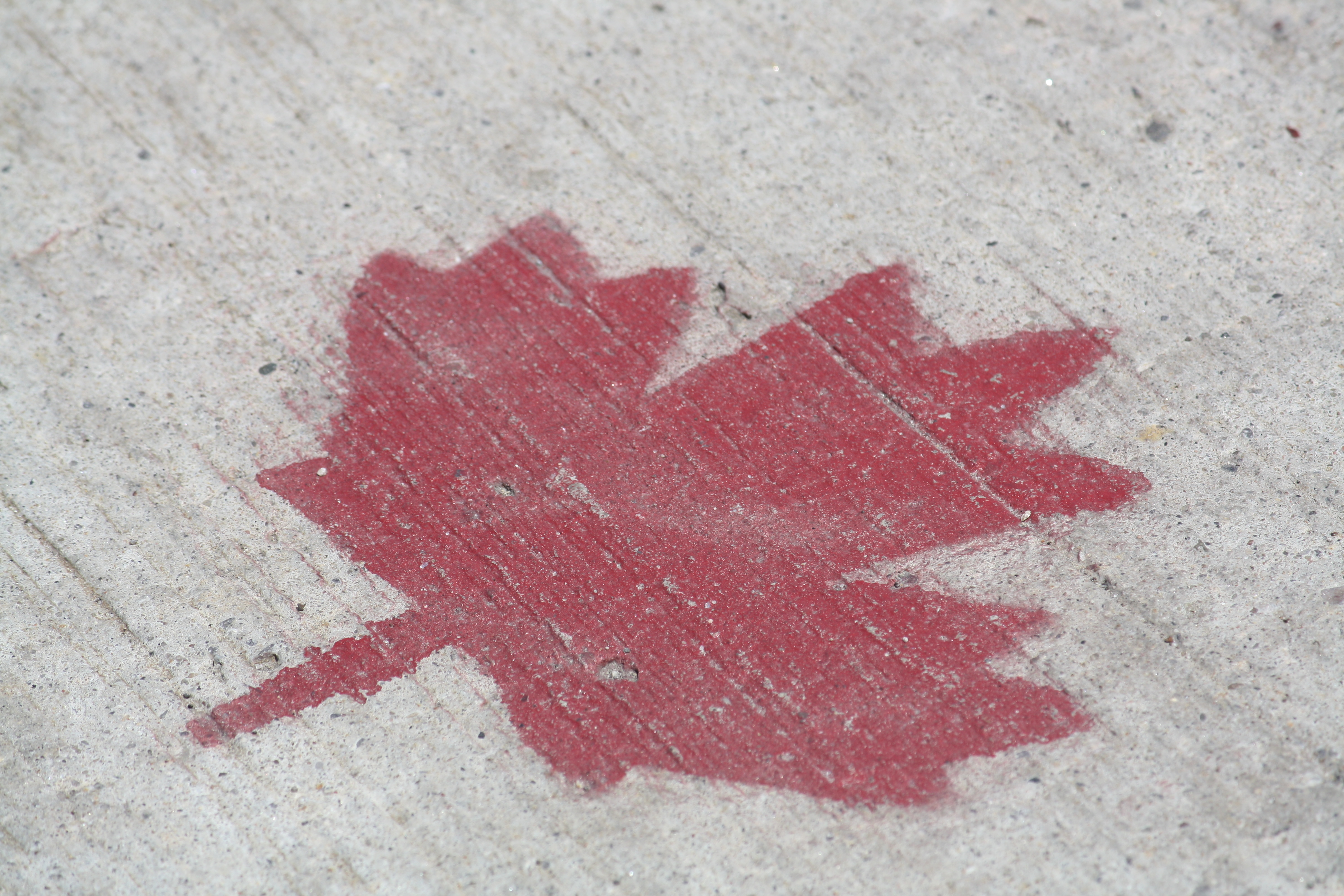 A maple leaf painted on a sidewalk using a stencil.